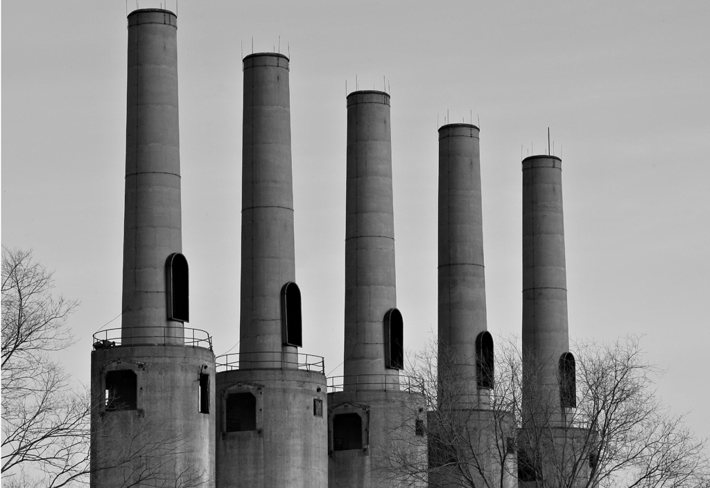 Smokestacks are all that remain from the two power plants at Gopher Ordnance Works. DuPont ran GOW during WWII to produce smokeless gunpowder for artillery shells.